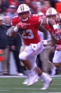 Jonathan Taylor